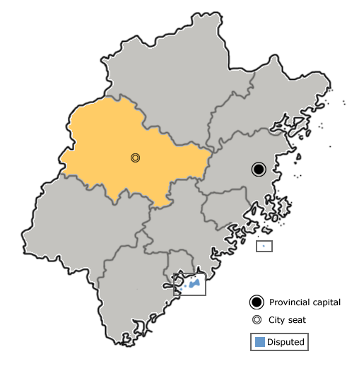 The prefecture-level city of Sanming is highlighted on this map of Fujian province, People's Republic of China.